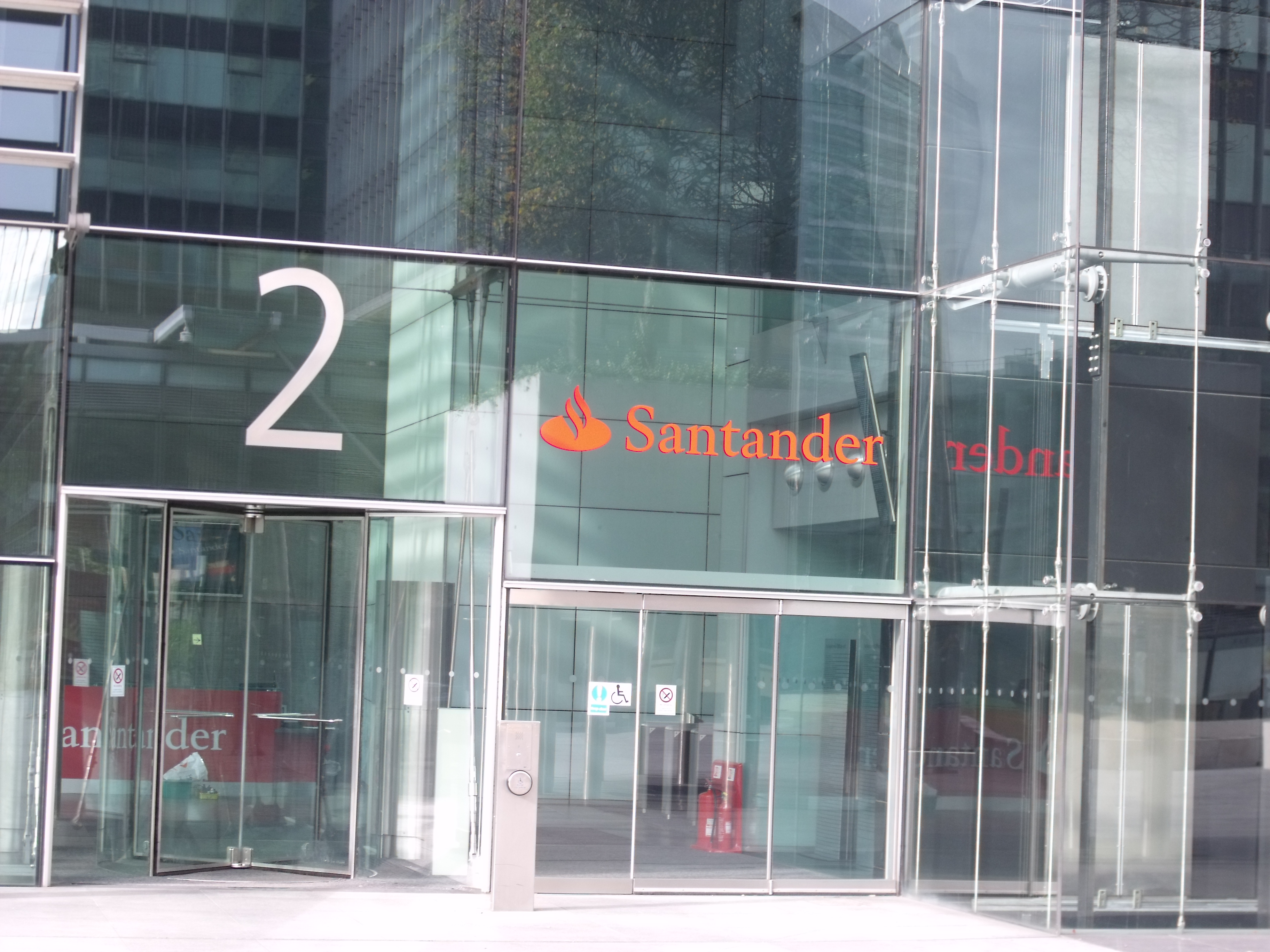 This is Triton Square, on the Euston Road in London. It is the site of the former Thames Television Studios (which was demolished back in the early '90s). It is being developed into Regent's Place. This is 2 Triton Square - now home of Santander (previously Abbey - since re-named Santander).